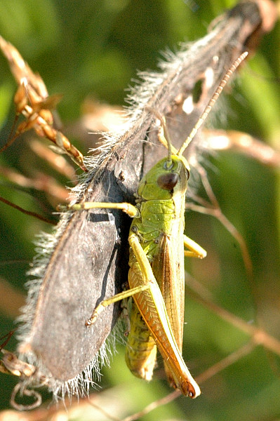 Picture taken in Commanster, Belgian High Ardennes . Species: Chorthippus montanus male